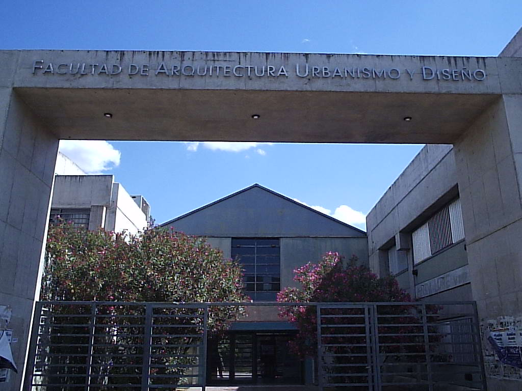 Entry of the faculty of Architecture, Urbanism and Design, located at the campus of the National University of Cordoba, in Cordoba, Argentina.